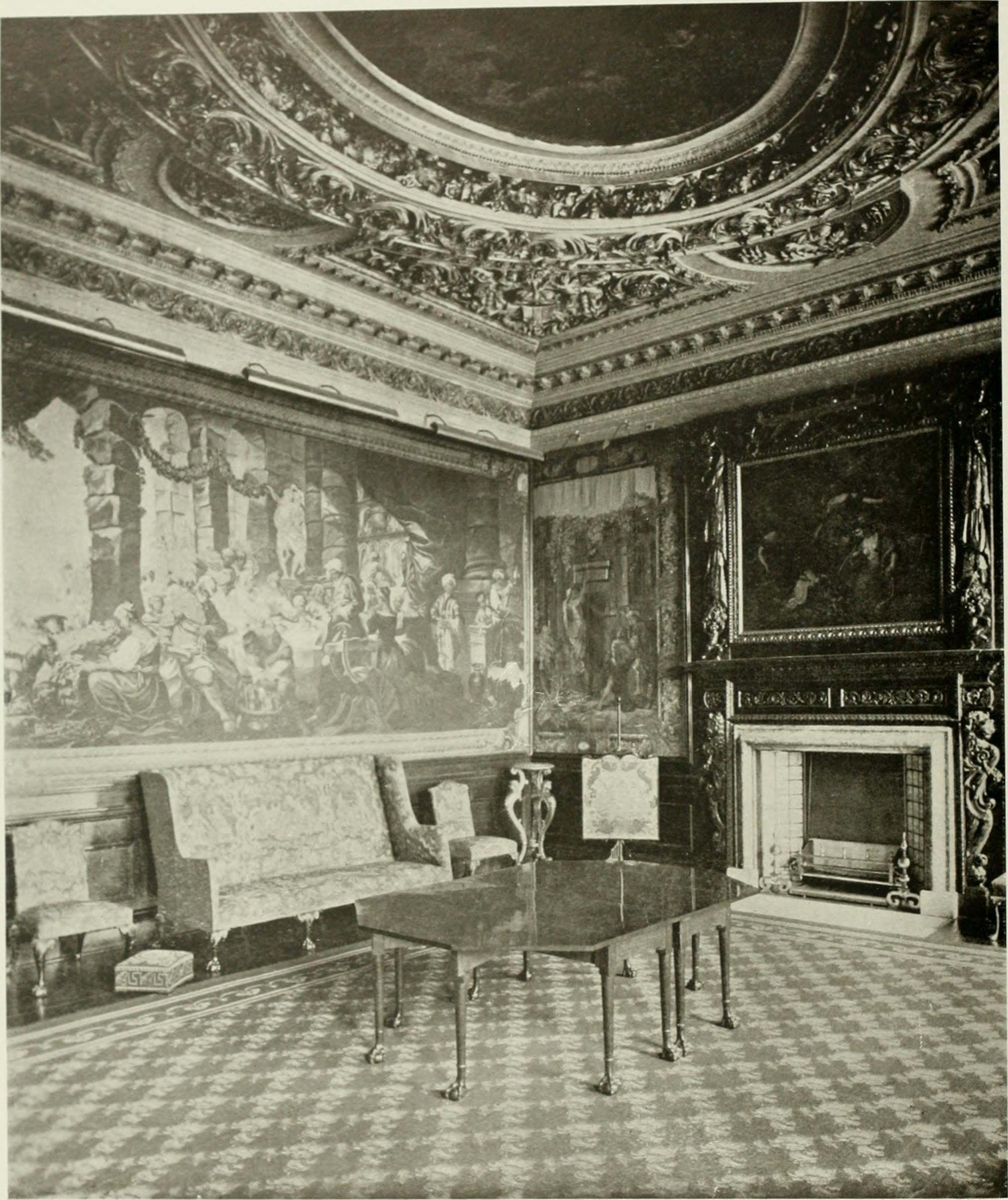 Title: Holyrood, its palace and its abbey; an historical appreciation Year: 1914 (1910s) Authors: Bryce, William Moir Subjects: Mary, Queen of Scots, 1542-1587 Holyrood Abbey Palace of Holyroodhouse (Edinburgh, Scotland) Publisher: Edinburgh : O. Schulze and company View Book Page: Book Viewer About This Book: Catalog Entry View All Images: All Images From Book Click here to view book online to see this illustration in context in a browseable online version of this book. Text Appearing Before Image: /■ — X / J XXIV Text Appearing After Image: Utiglis STATE APARTMENT ADJOINING MORNING URAWING-ROOM, CHARLES II. PERIOD See note under Plate No. XXIII. as to ceiling. XXV.